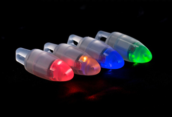 Emergency Triage (E/T) Lights - A new method and device for prioritizing patients during mass casualty incidents in particular those that occur at night or under adverse conditions. Improves patient collection times by over 30% with less patient errors.